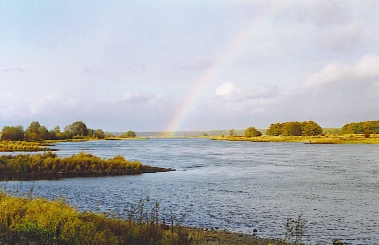 Oder river near Guben